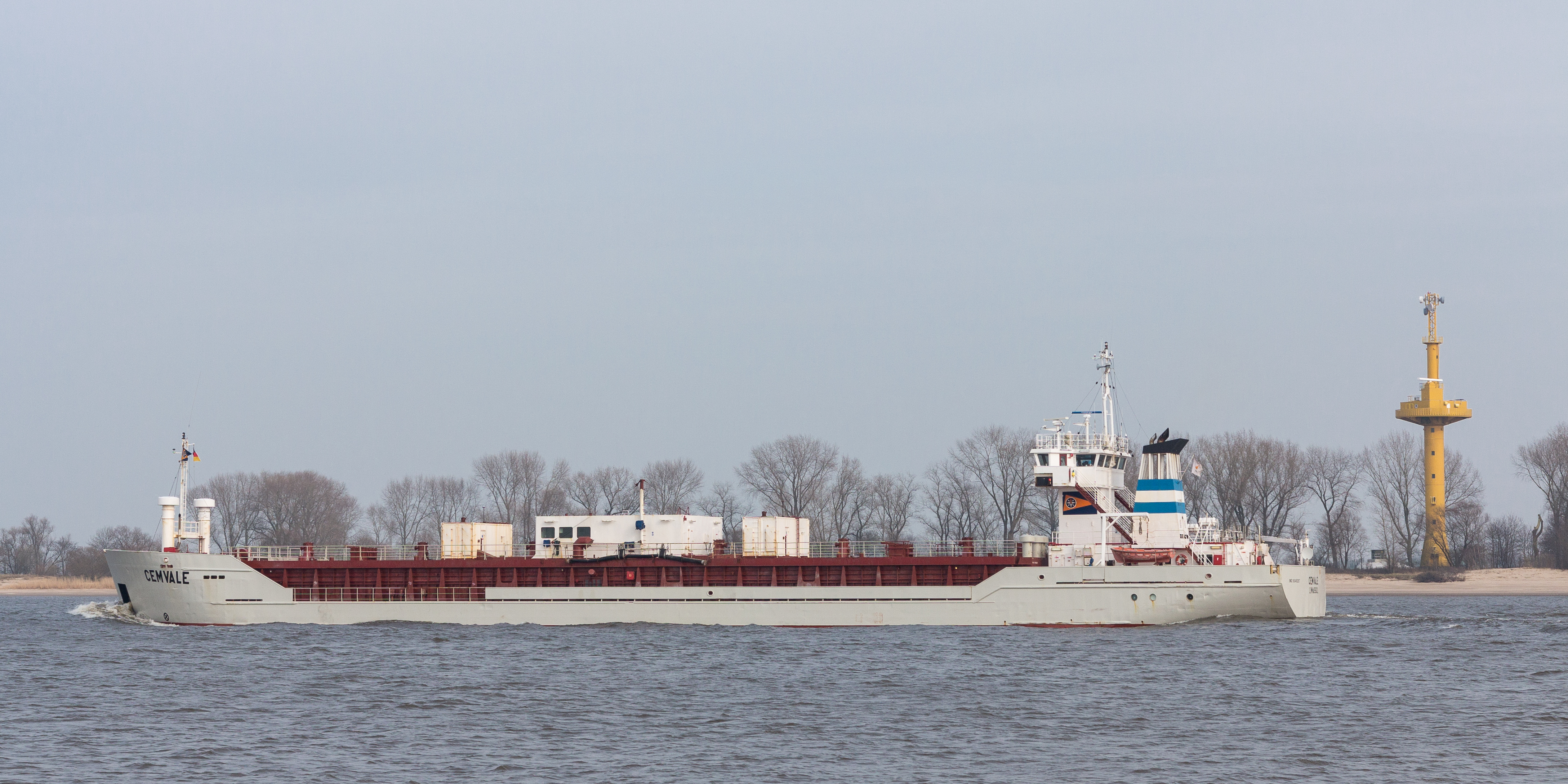 Cement Carrier "Cemvale" (ex-Arklow Valley) on the river Weser at radar station Harriersand.